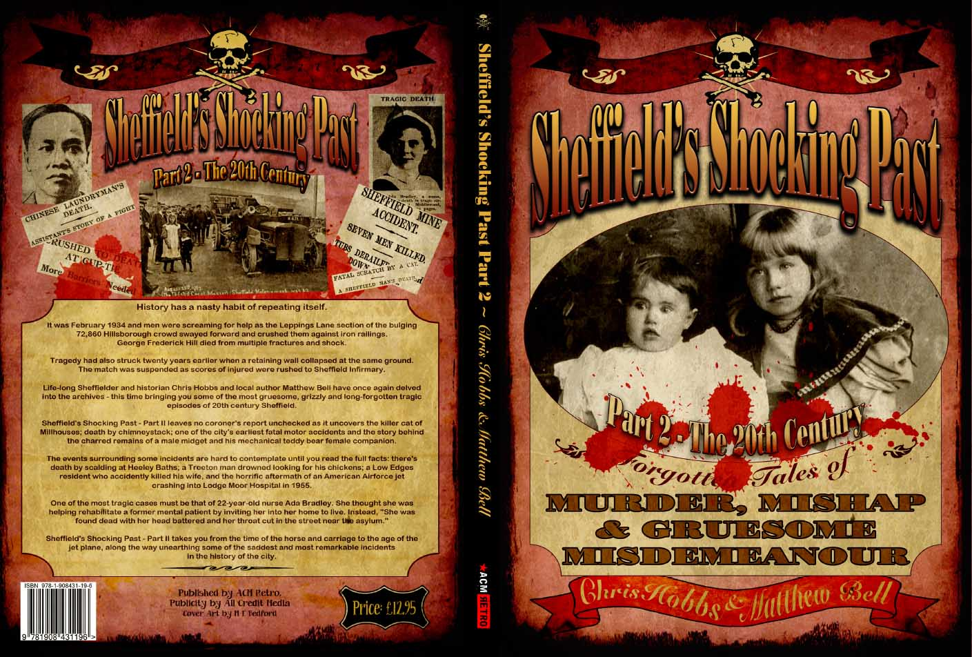 Cover of Sheffield's Shocking Past - Part 2 - The Twentieth Century by Chris Hobbs and Matthew Bell